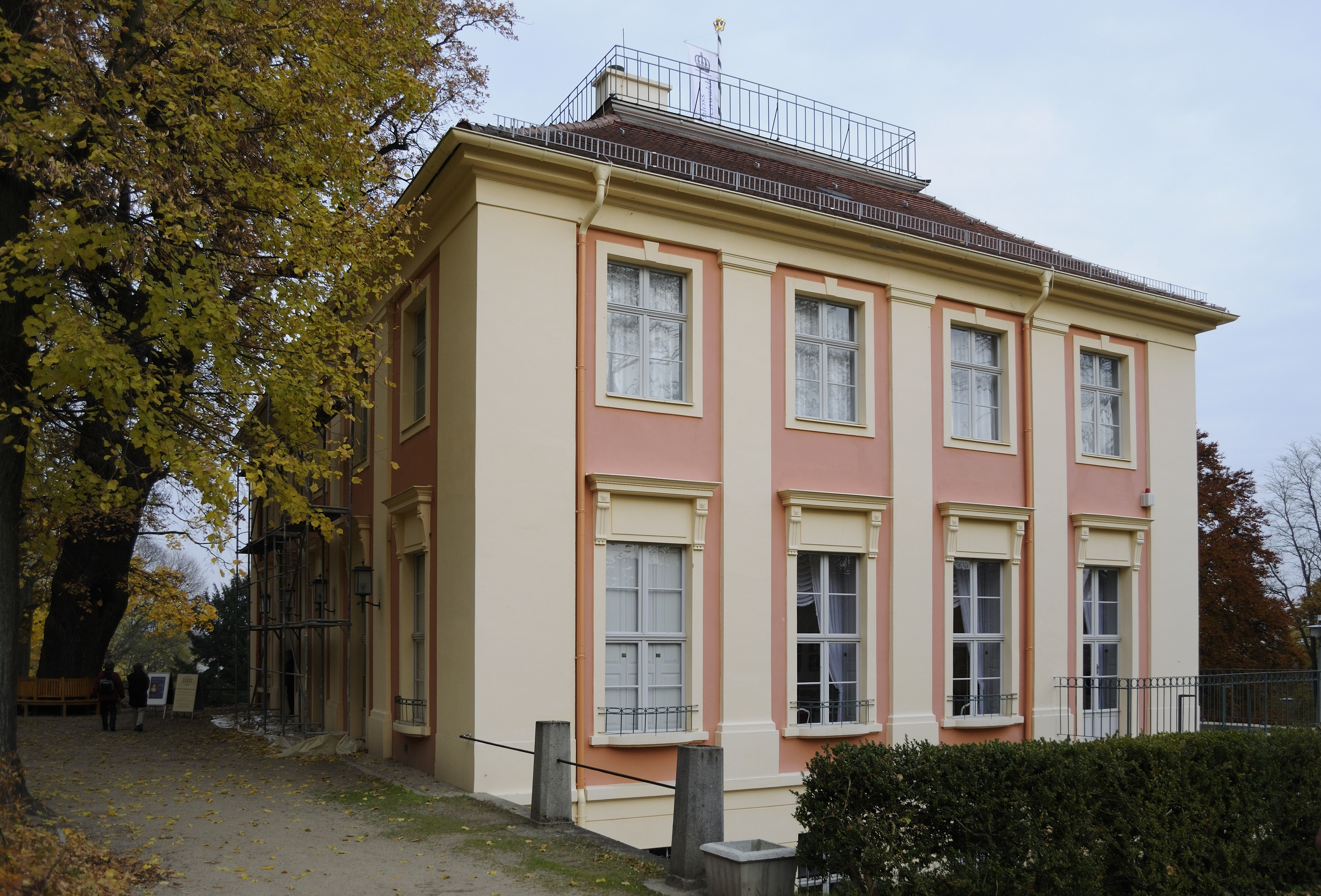 Picture taken in Bad Freienwalde.